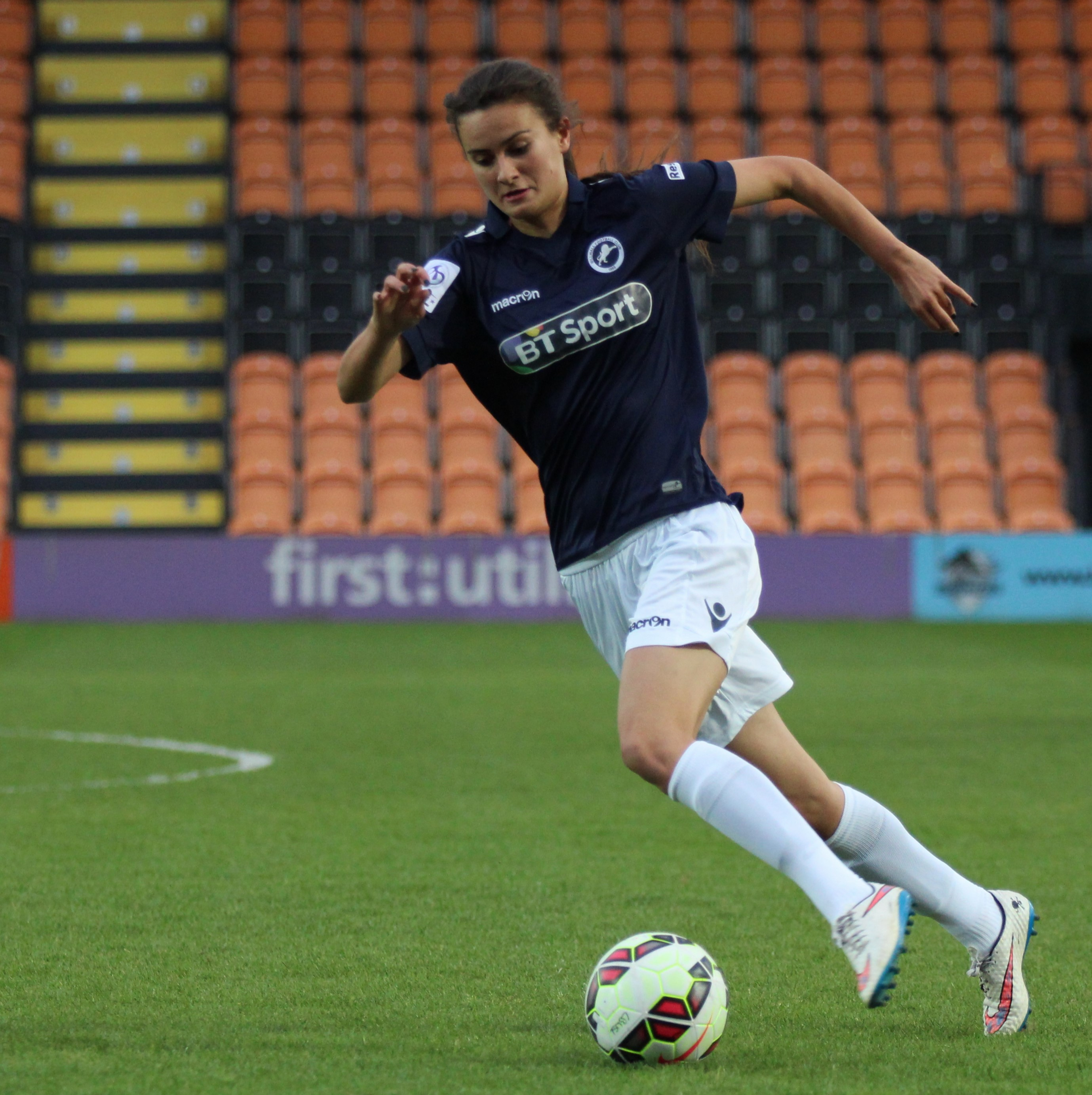 Rosella Ayane, on loan from Chelsea Ladies, on the ball during the game against London Bees.